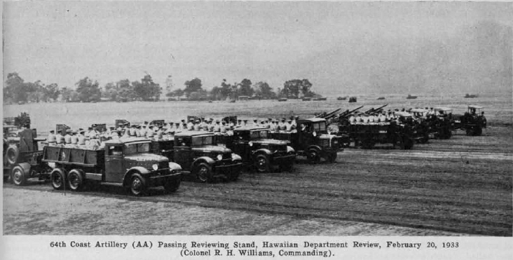 1931 GMC model T95 trucks (forground) towing 3-inch Antiaircraft guns